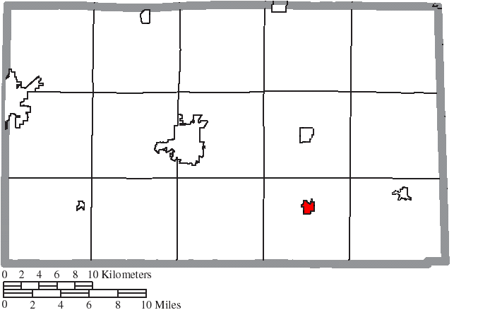 Map of the municipal and township boundaries of Seneca County, Ohio, United States, as of the 2000 census, with the location of the village of Bloomville highlighted. Township borders are shown only in unincorporated areas in order to differentiate incorporated and unincorporated areas more clearly.